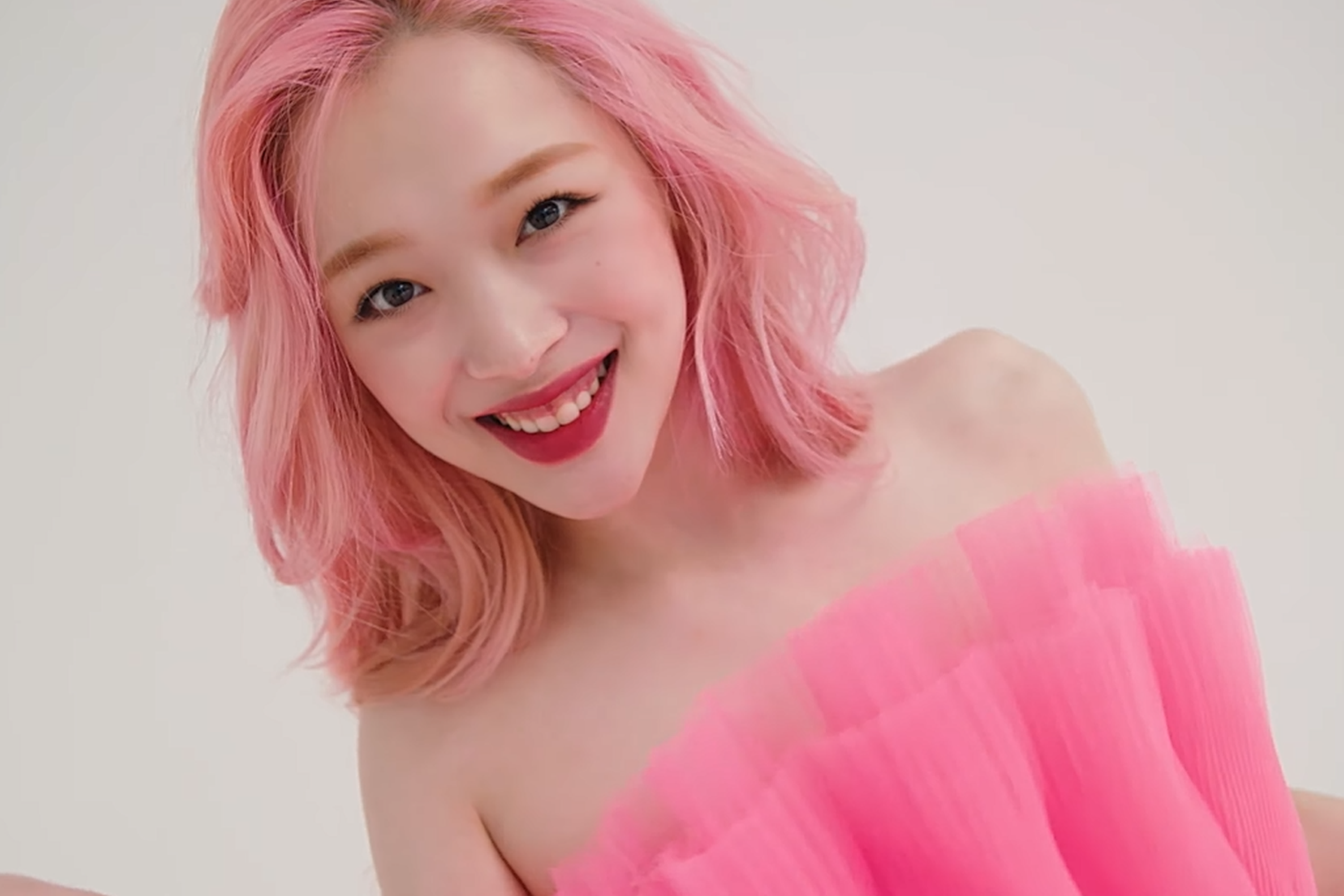 Sulli for Marie Claire Korea Magazine July Issue 2019.